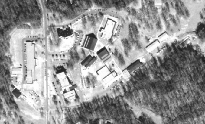 Aerial image of Phillips Community College